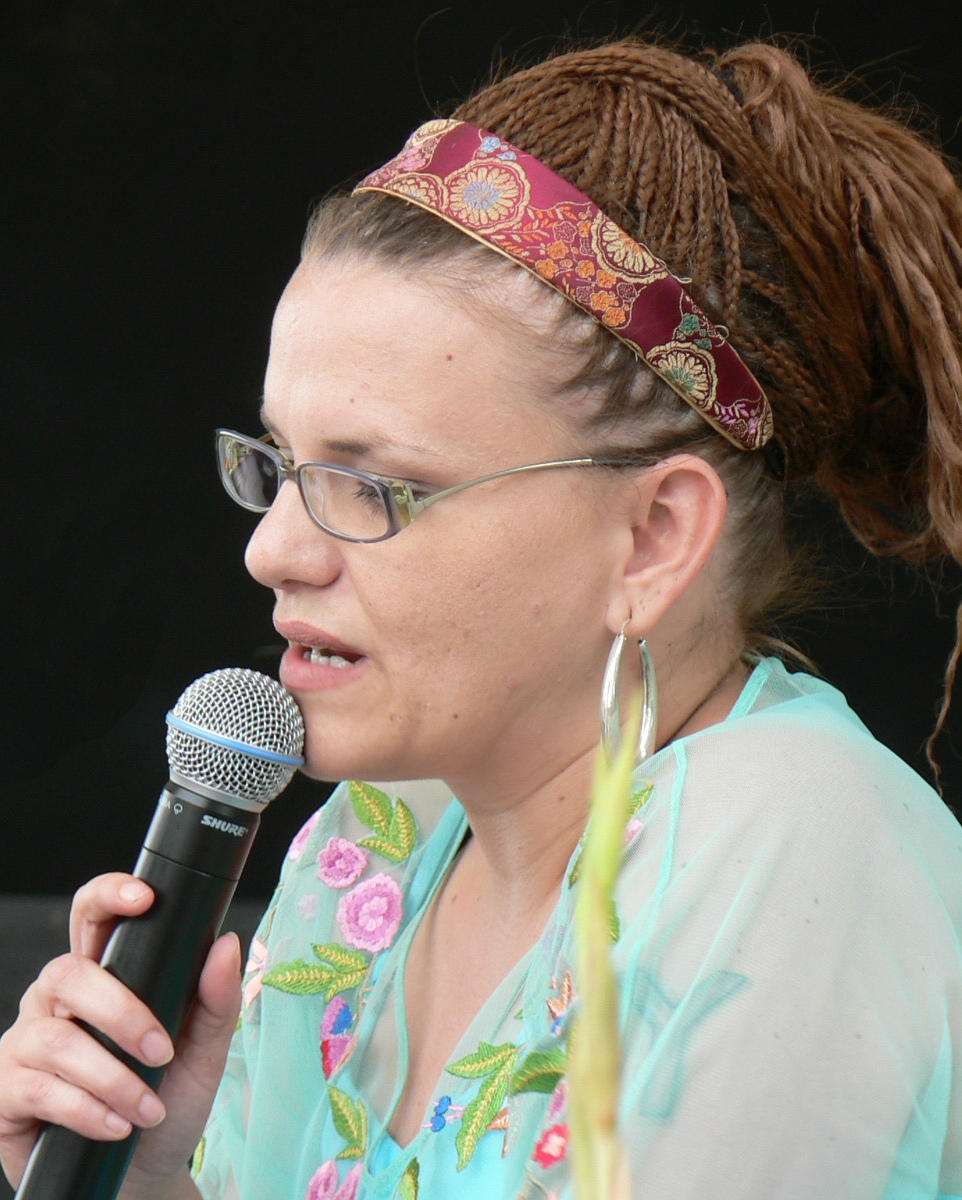 Póka Angéla 2007-ben